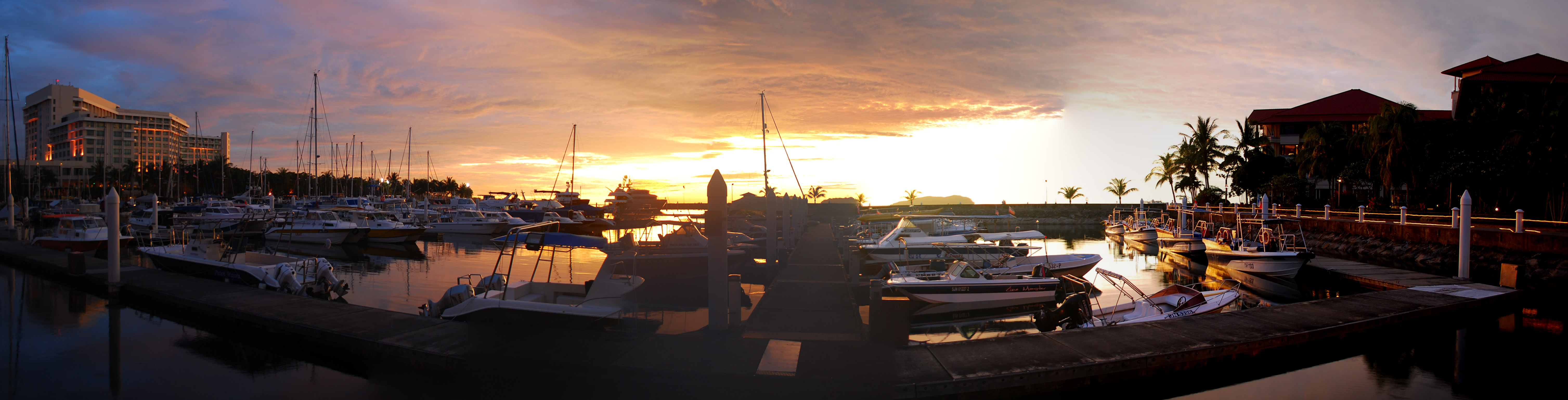 A 180 degree view of Sunset at Sutera Harbour Resort, Kota Kinabalu, Sabah, Malaysia